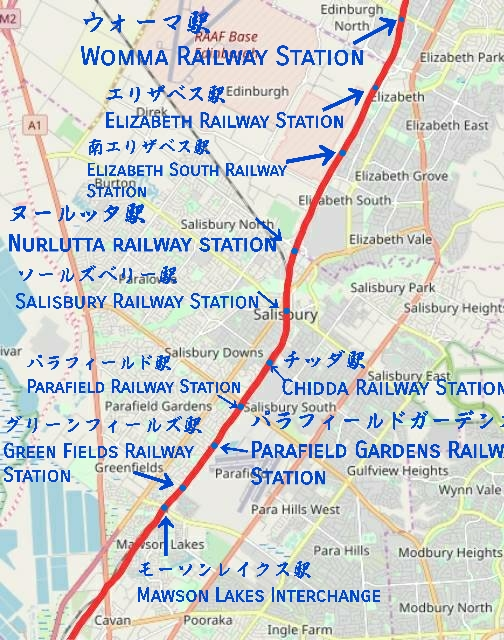 Indicating the stations of Gawler Railway Line